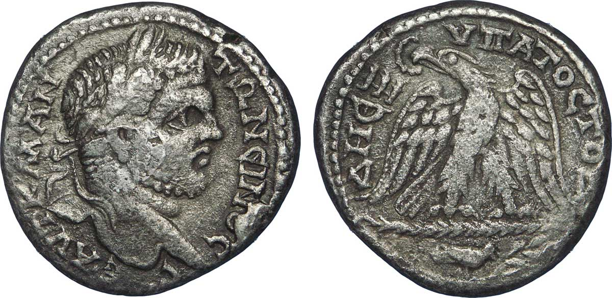 Monnaie frappée en la cité d'Ascalon